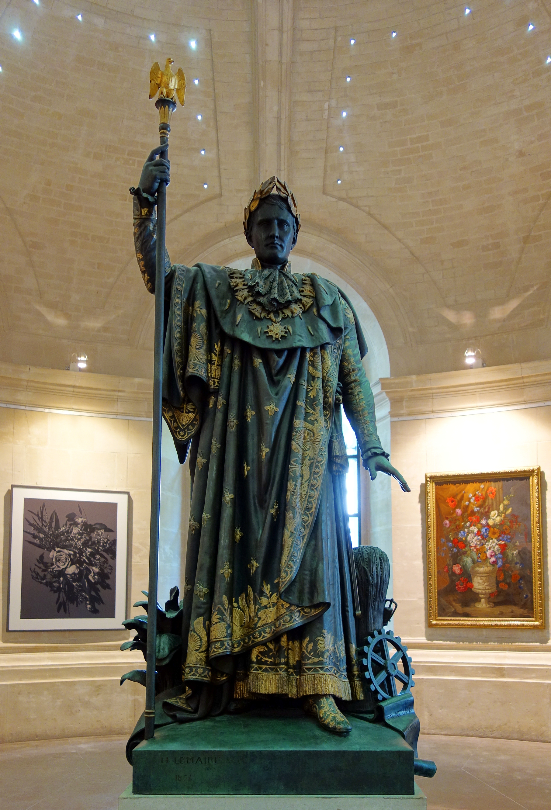 Statue of Napoléon the 1st, protector of industry. Picture taken at the Palais des beaux-arts of Lille, France.